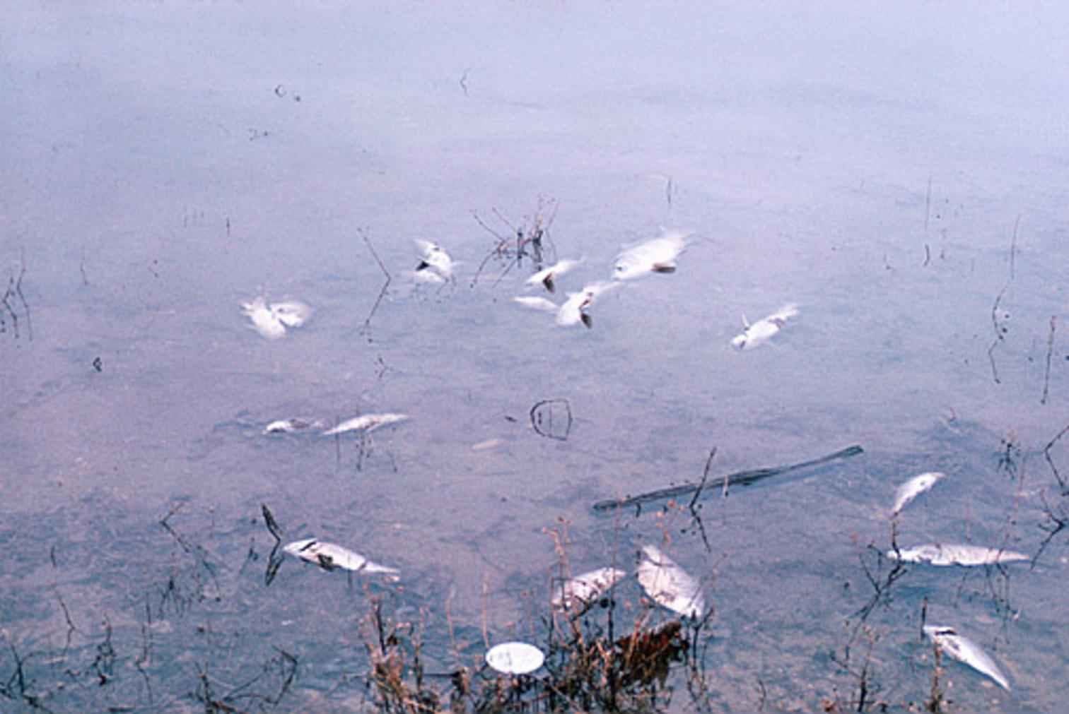 Image title: Water pollution fish kill Image from Public domain images website